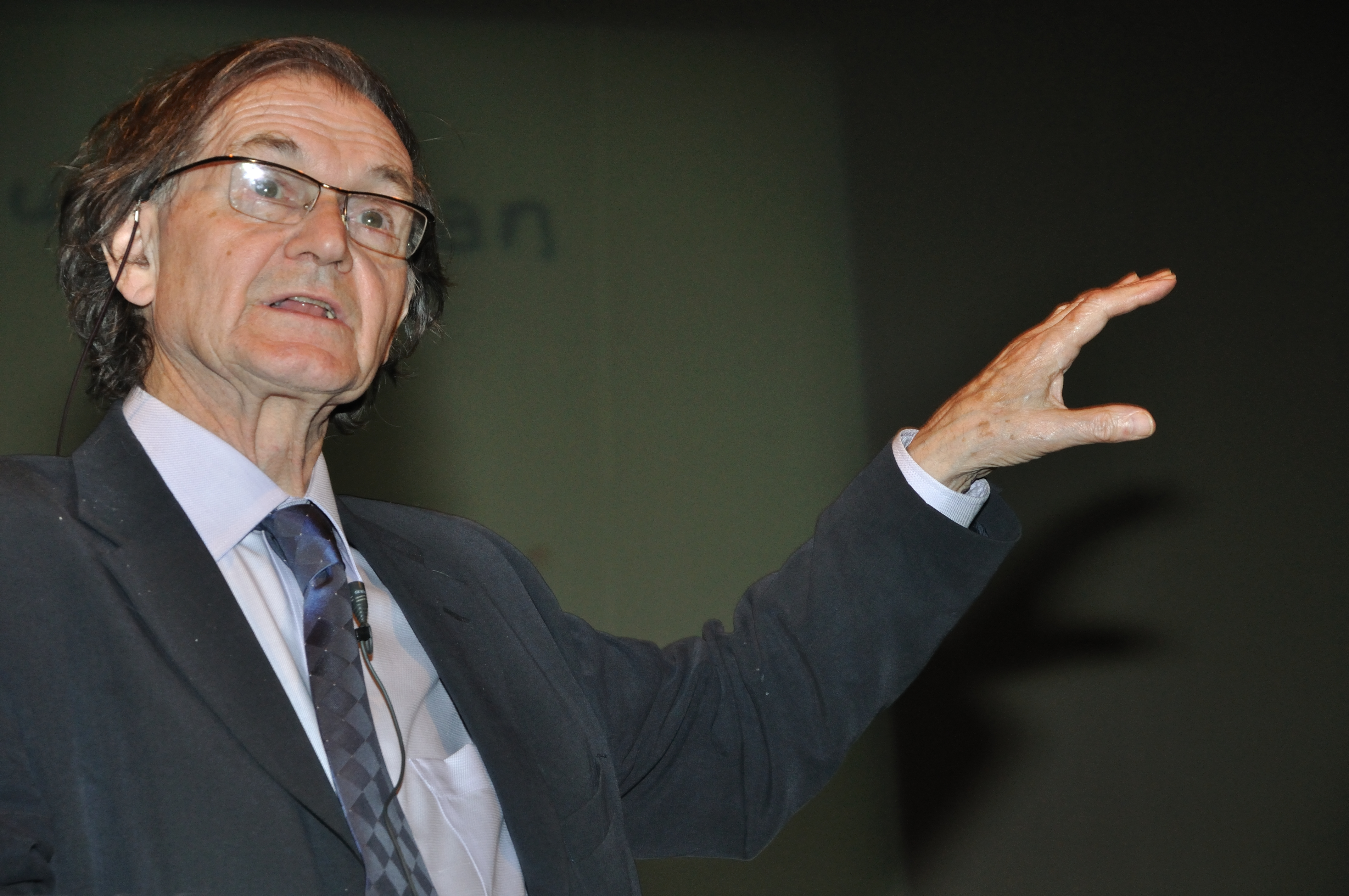 Professor Sir Roger Penrose (born 8 August 1931) OM, FRS is an English mathematical physicist renowned for his work in mathematical physics, in particular his contributions to general relativity and cosmology. He is also a recreational mathematician and philosopher.